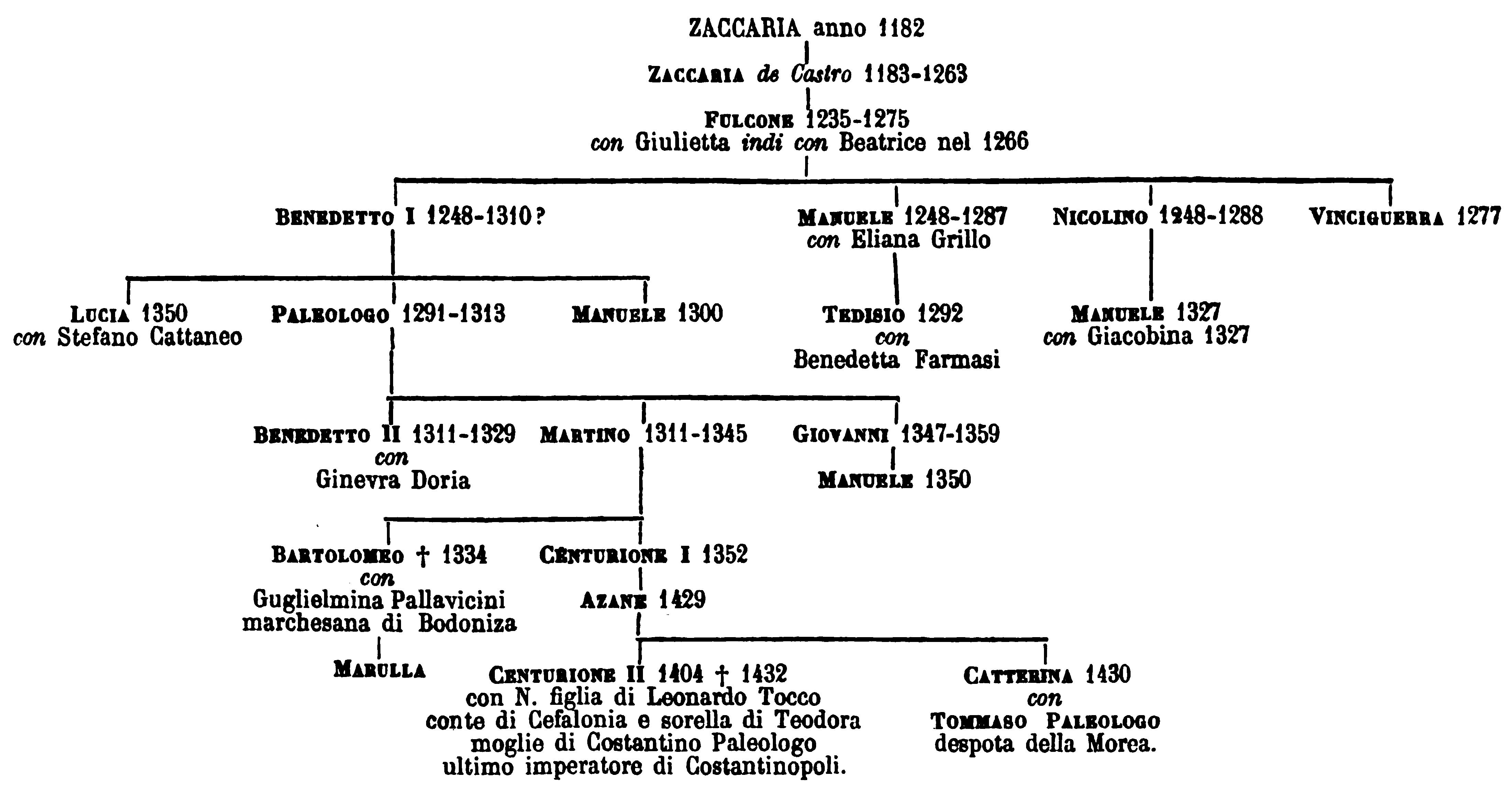 Family tree from La zecca di Scio (p. 19)